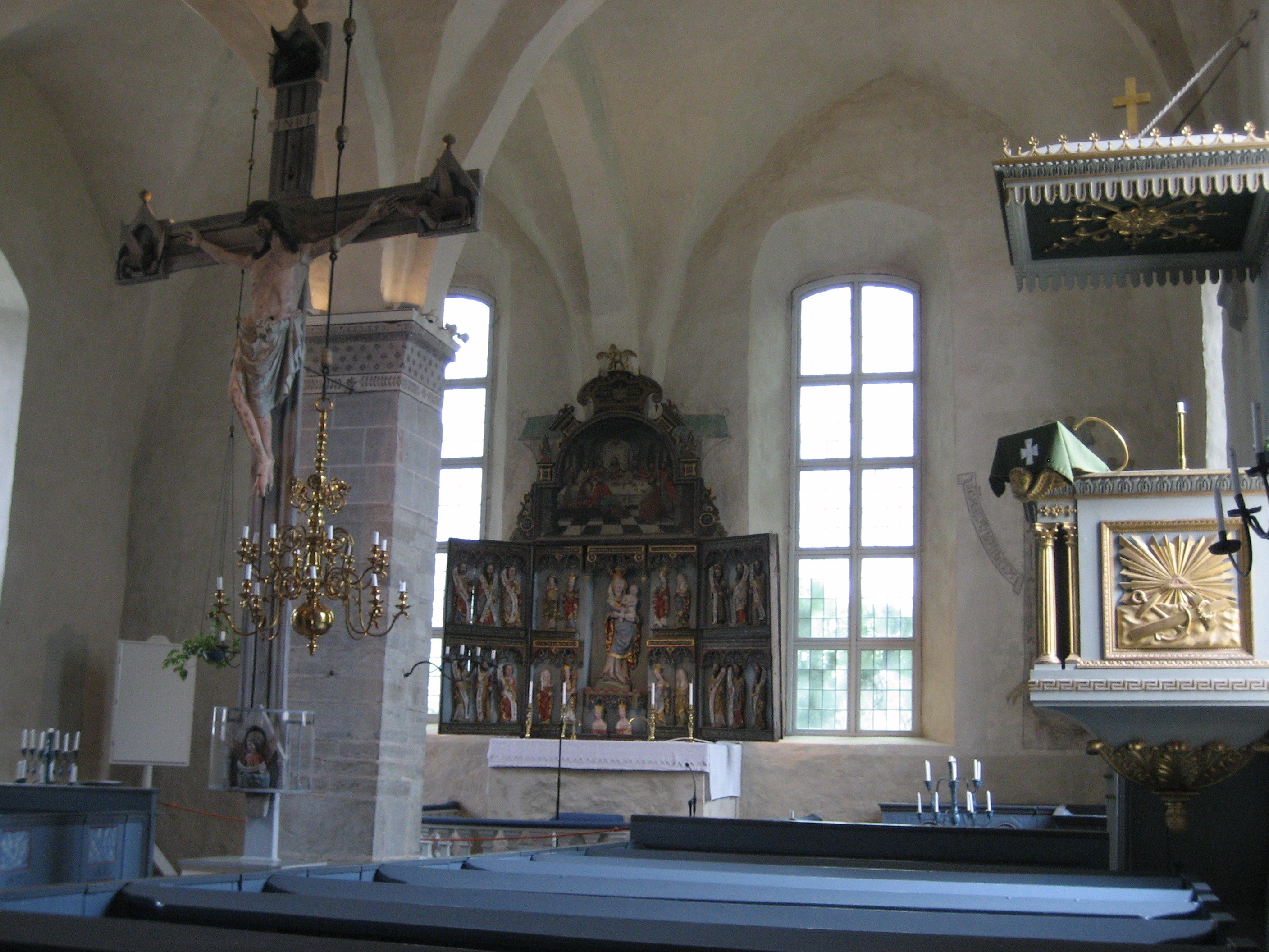 Sund church, Åland